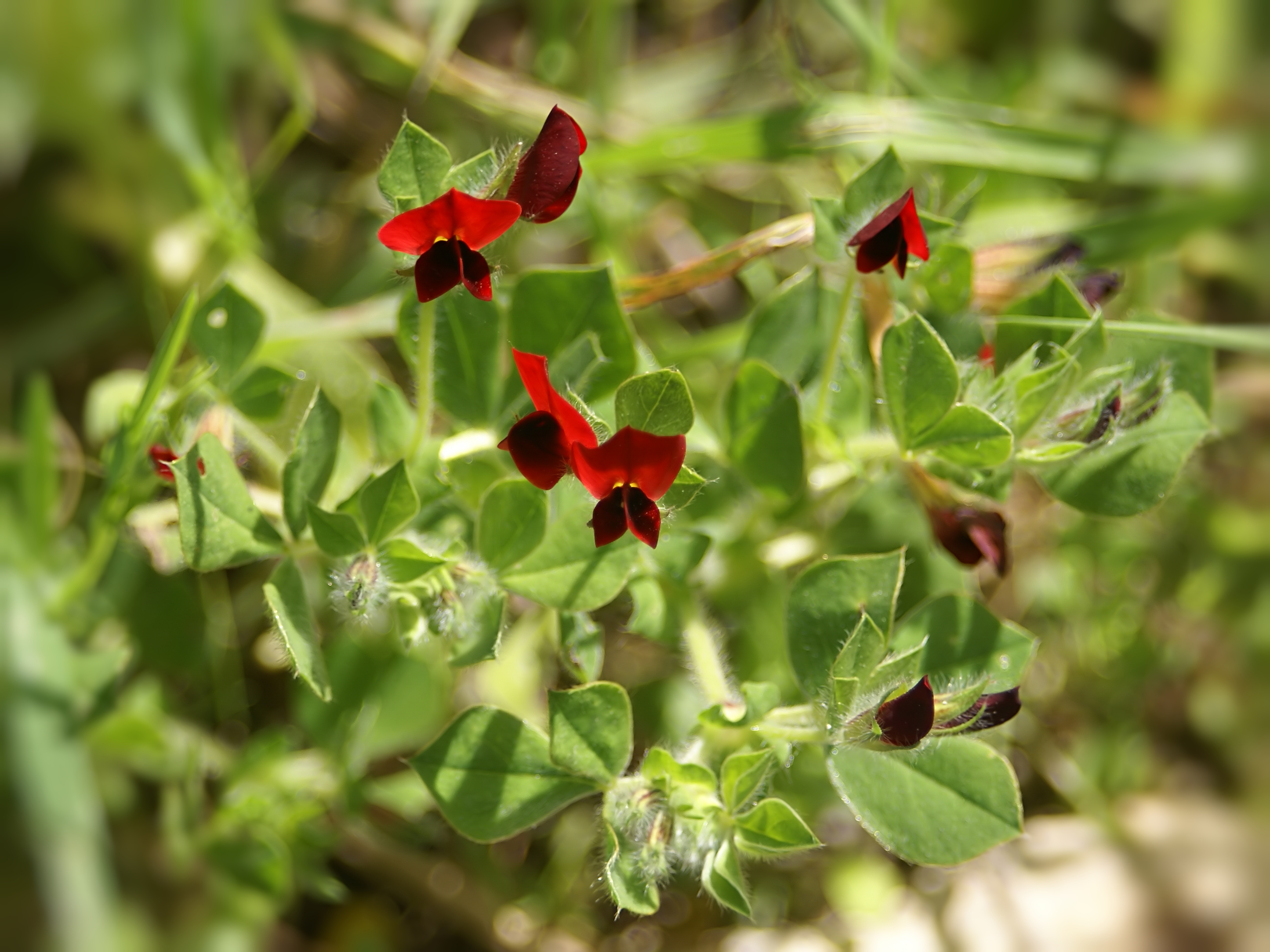 Crimson Dragon's Teeth near Cantoniera Scala Cavalli, Sardinia, Italy.